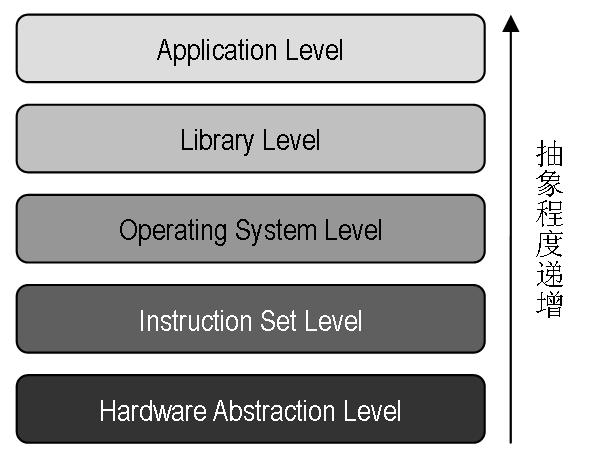 5 Levels of Virtualization Technology